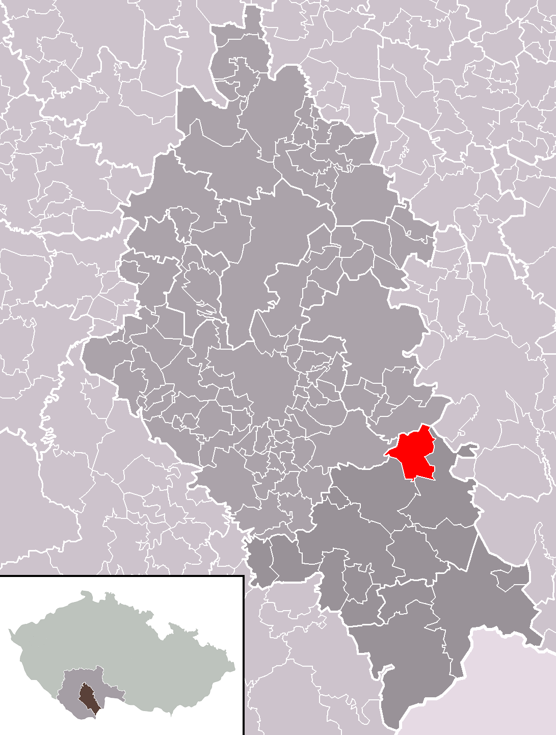 Location of Mladošovice municipality within České Budějovice District and administrative area of Trhové Sviny as a Municipality with Extended Competence.